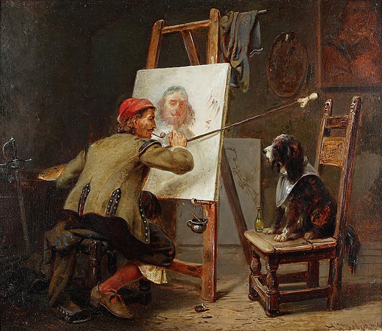 The artist's model, Karl Josef Litschauer (1830-1871)